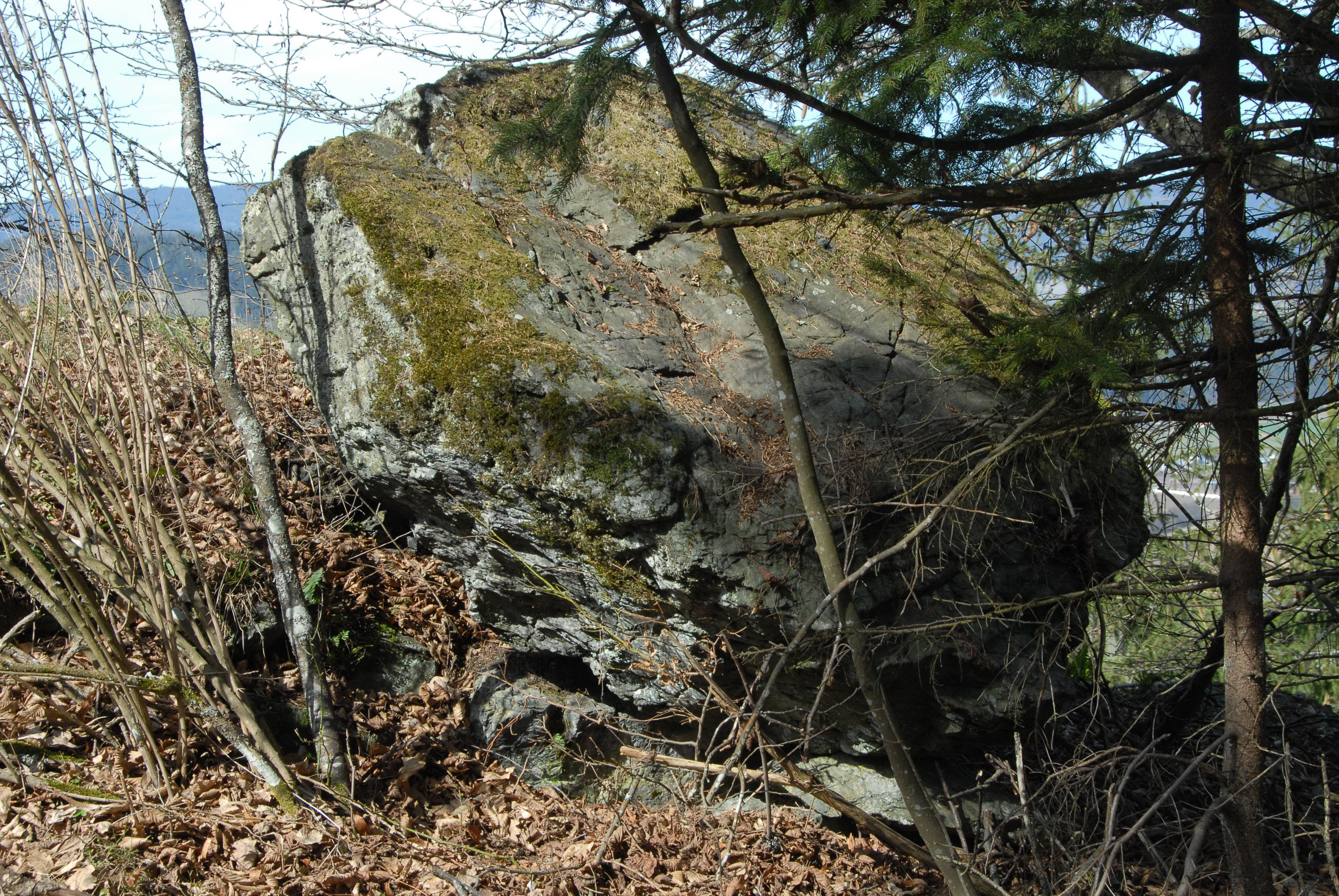 "Rock-table" (natural monument) over Saint Donat, municipality Saint Veit on the Glan, district Sankt Veit an der Glan, Carinthia / Austria / EU